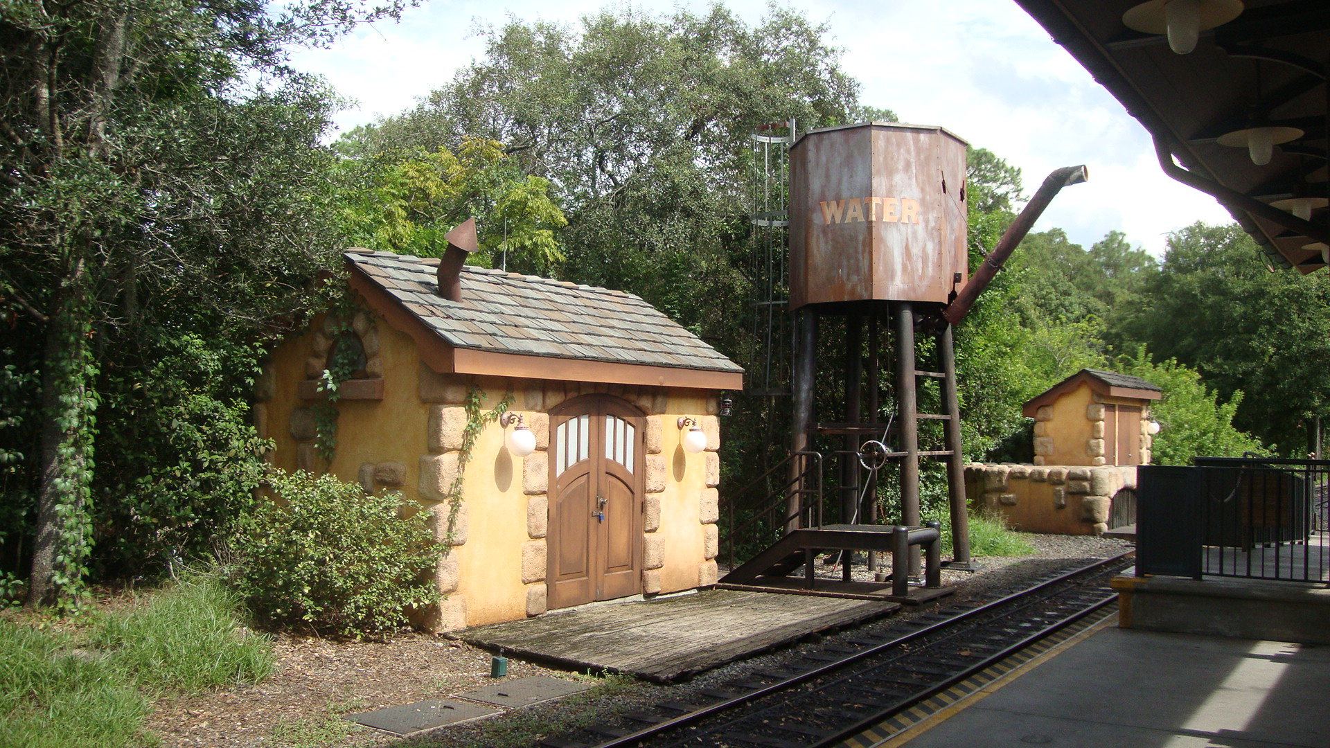 WDWRR Fantasyland Station in 2014.